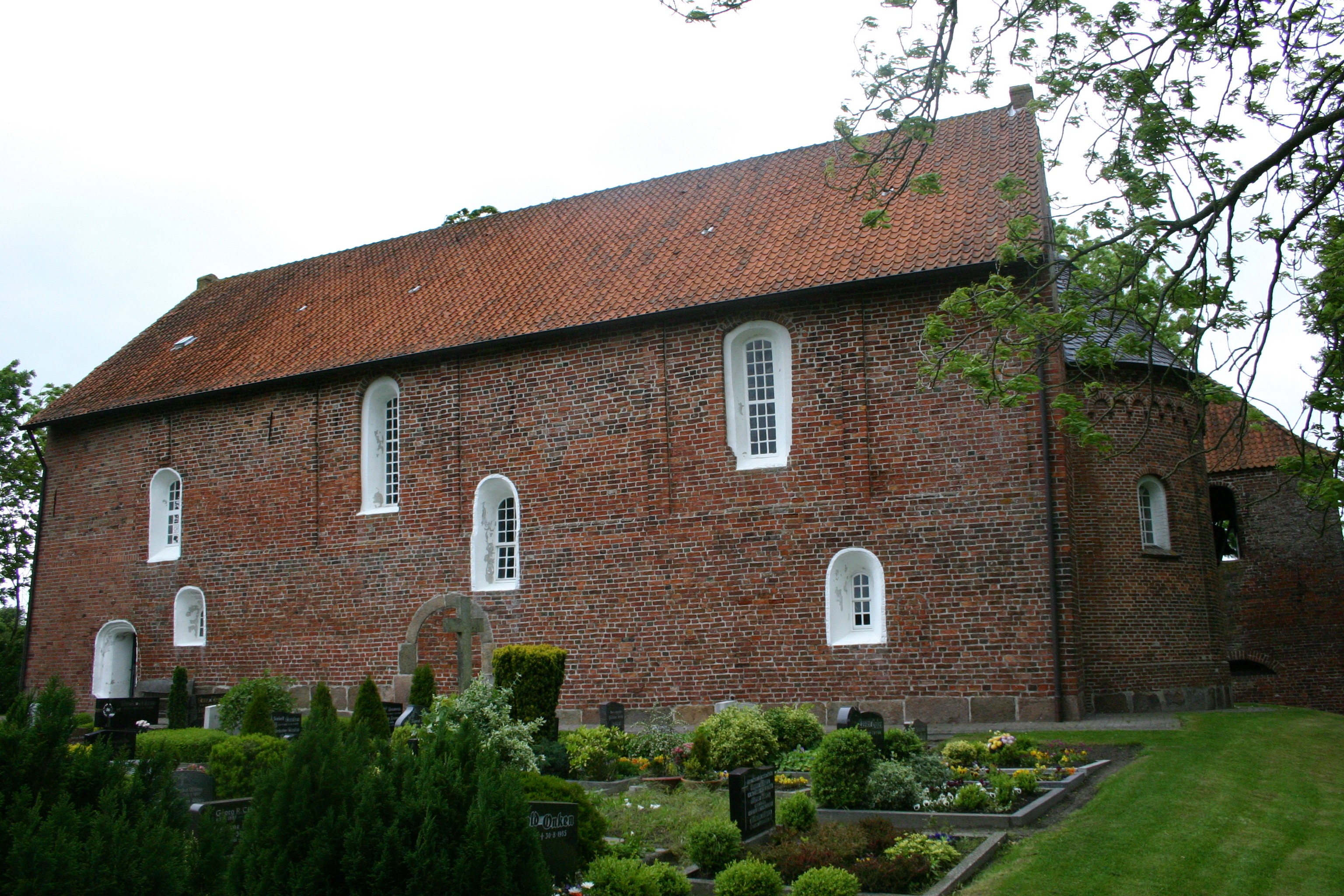 Historic church in Roggenstede, district of Aurich, East Frisia, Germany